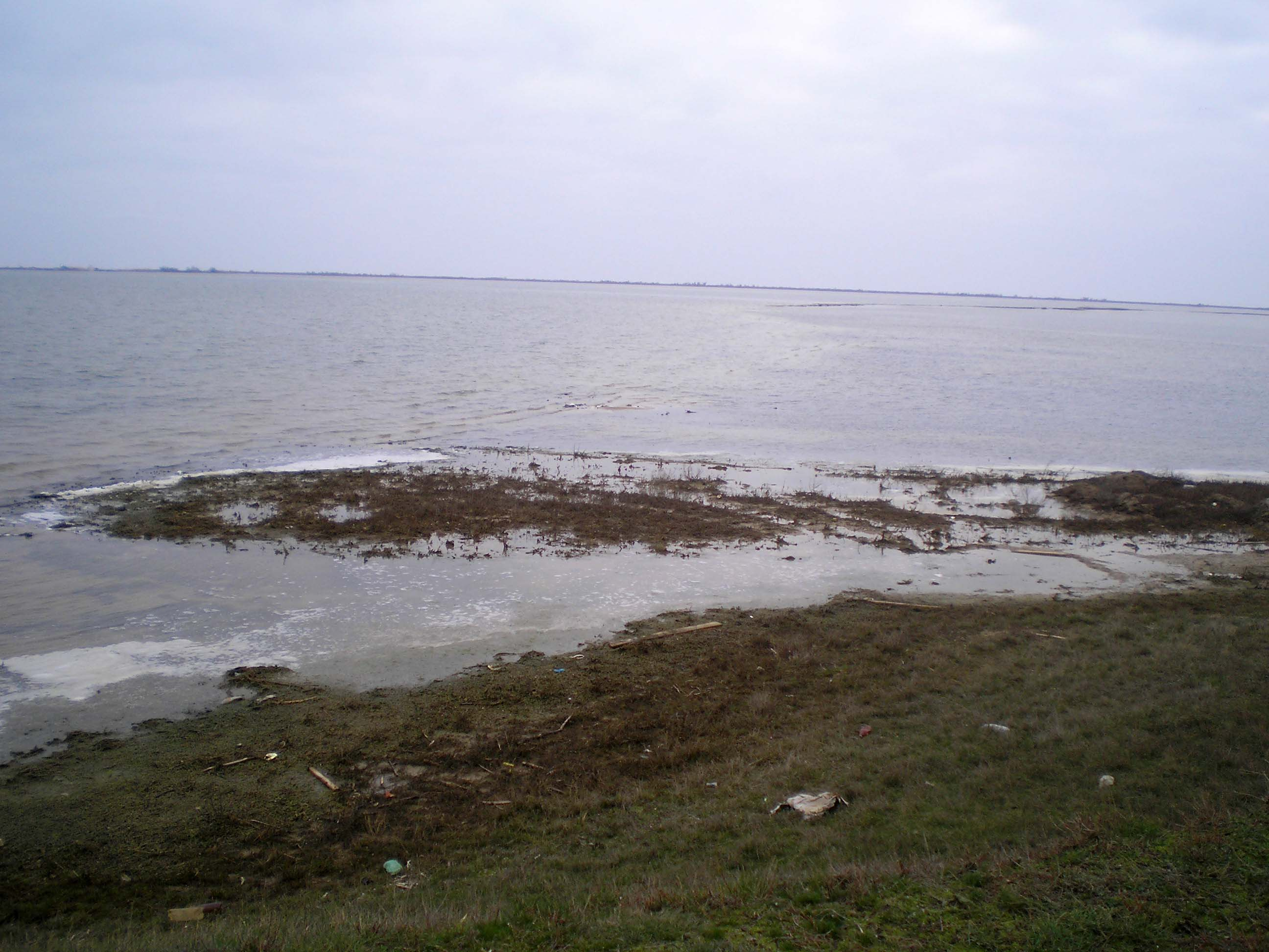 The Kurudiol Lagoon, Odessa Oblast, Ukraine